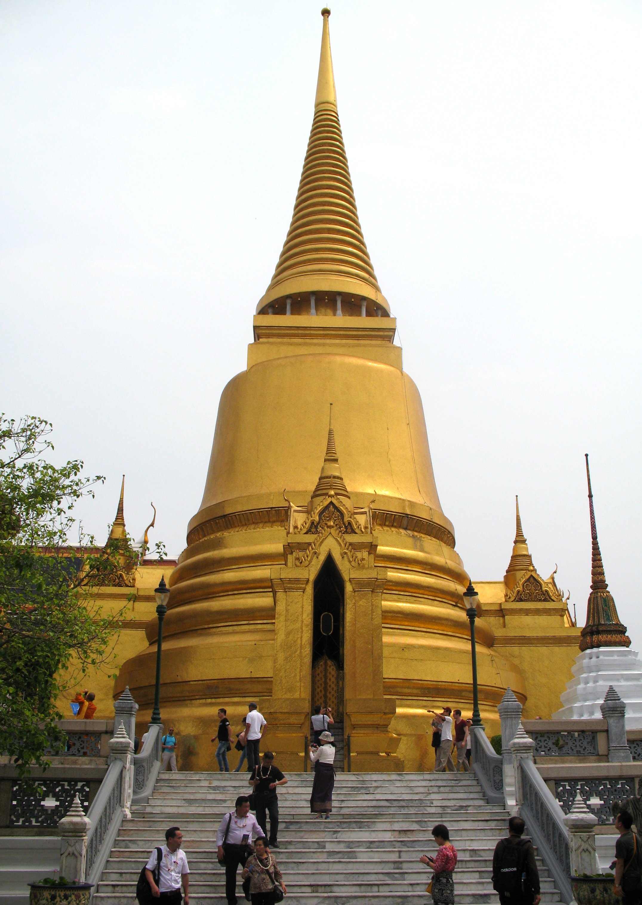 Phra Sri Ratana Chedi in Wat Phra Kaew